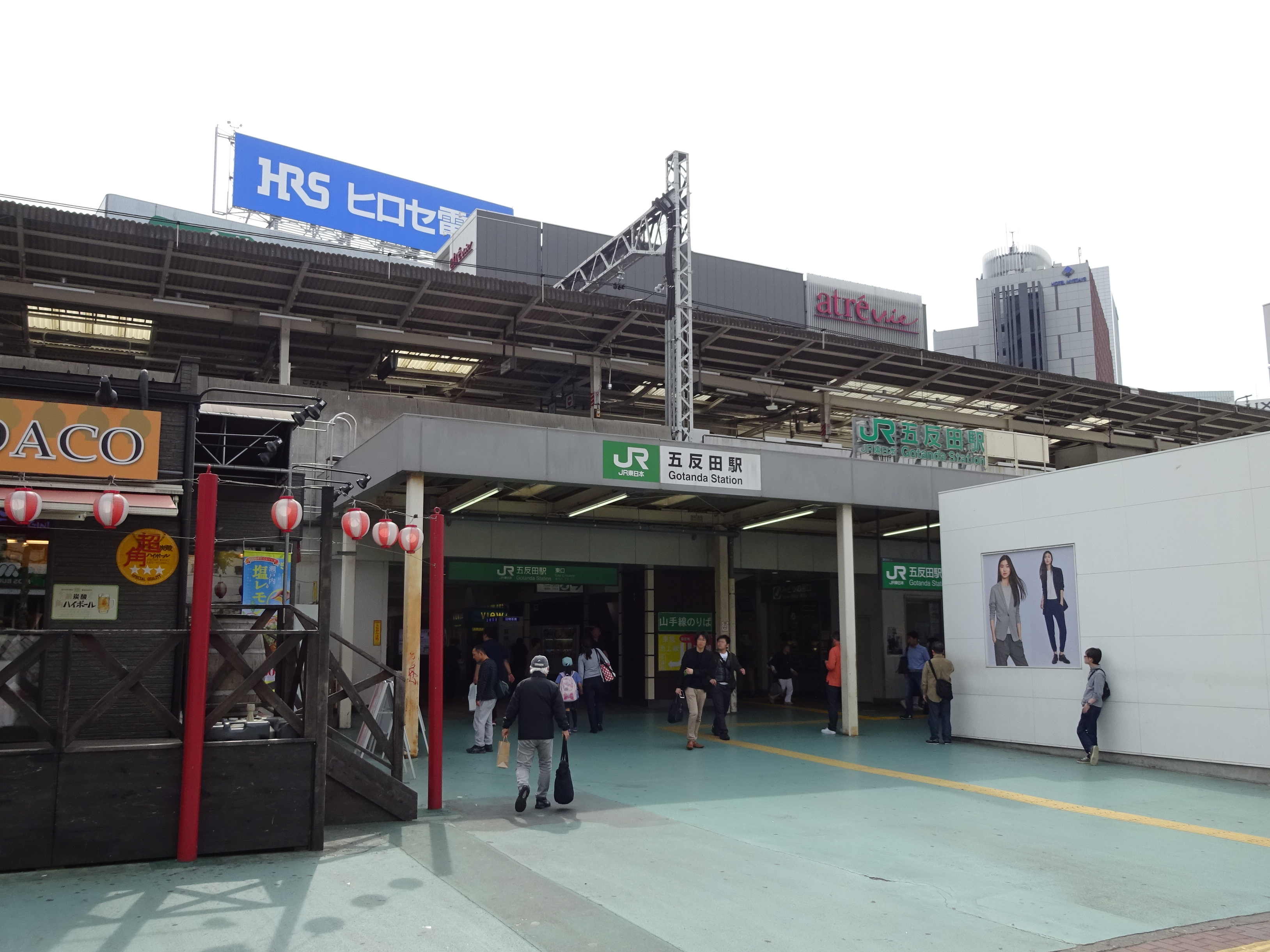 East Entrance of Gotanda Station